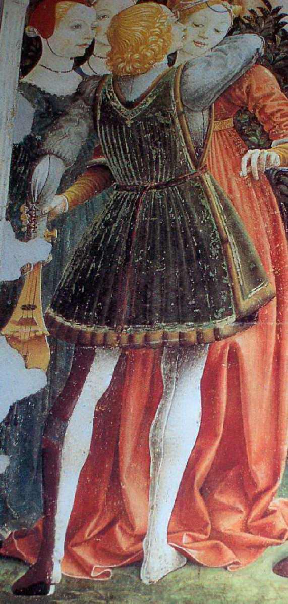 Detail from Francesco del Cossa, Triumph of May, Ferrara, about 1470. Particolored hose. Image from Men's Clothing in 15th Century Florence